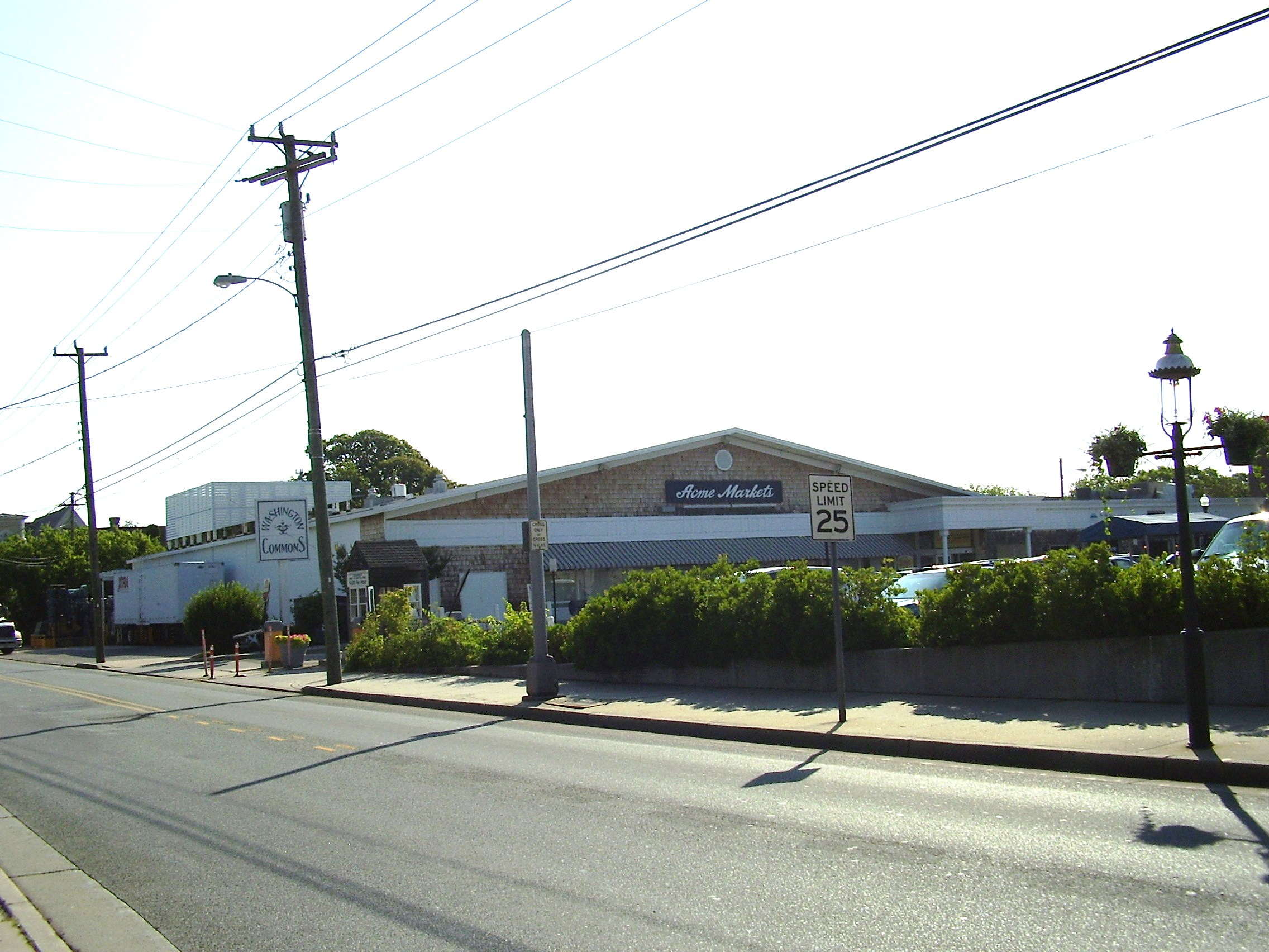 Acme Markets supermarket in Cape May, New Jersey